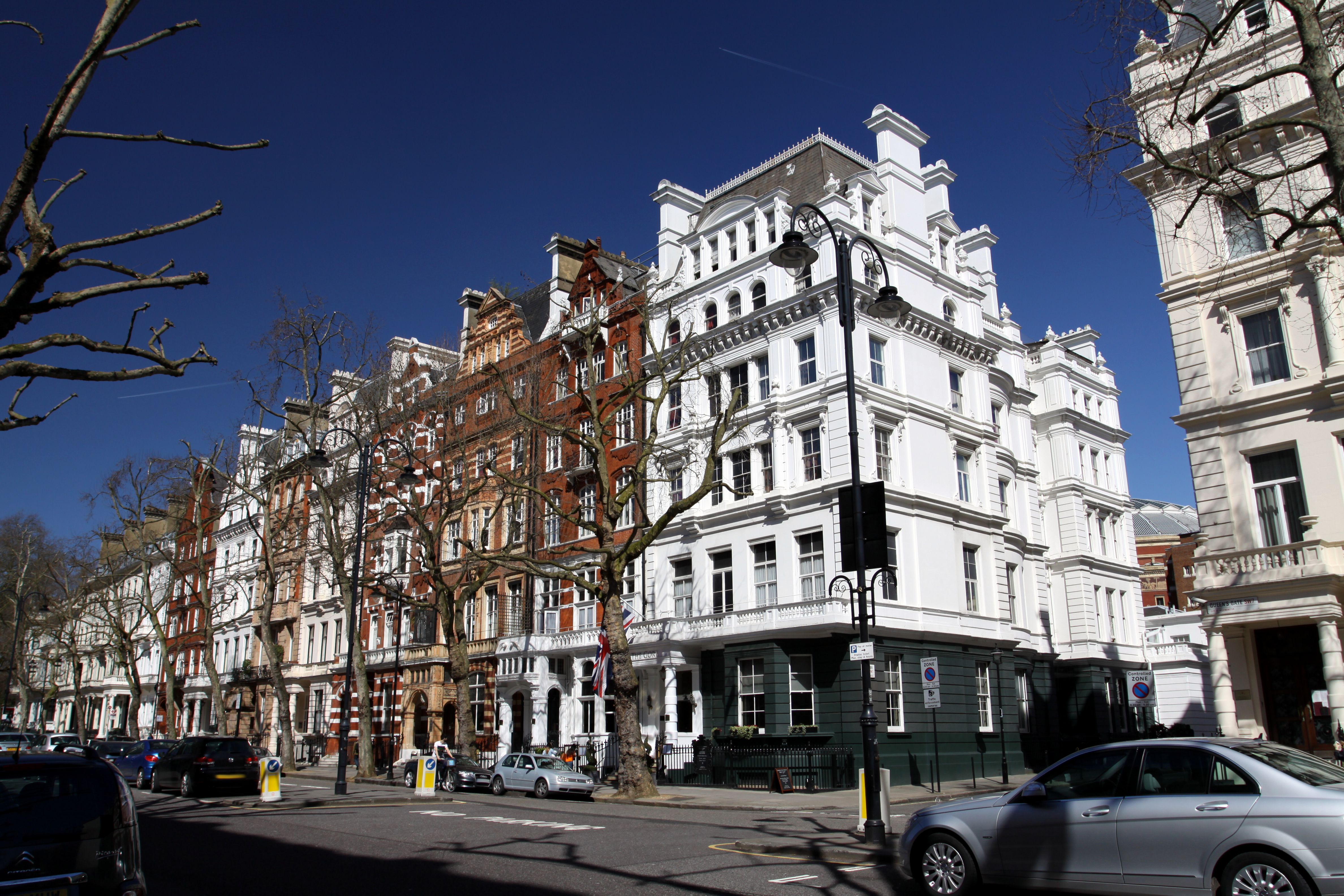 Queen's Gate street, the City of Westminster, London, Great Britain. The making of this file was supported by Wikimedia UK.